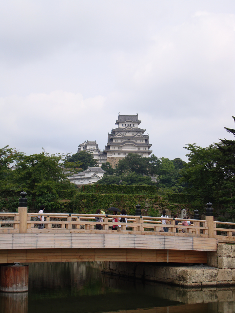 Going to Himeji Castle.